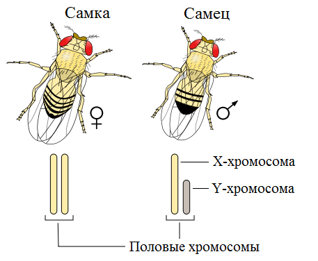 Drosophila XY sex-determination